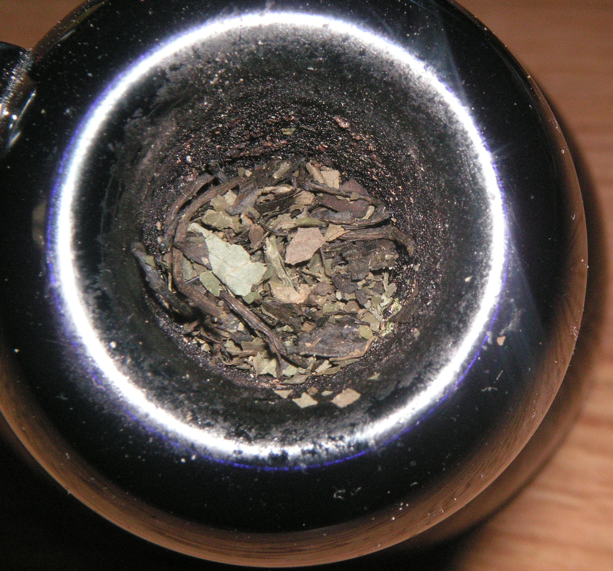 A bowl of 20x standardized extract ready and waiting for ignition, inhalation, then blastoff.